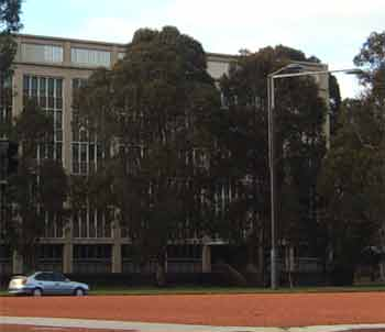 ANZAC Parade, Canberra has two major office blocks flanking the Lake Burley Griffin end: ANZAC Park West, and ANZAC Park East. These complete the documentation of the Parade.